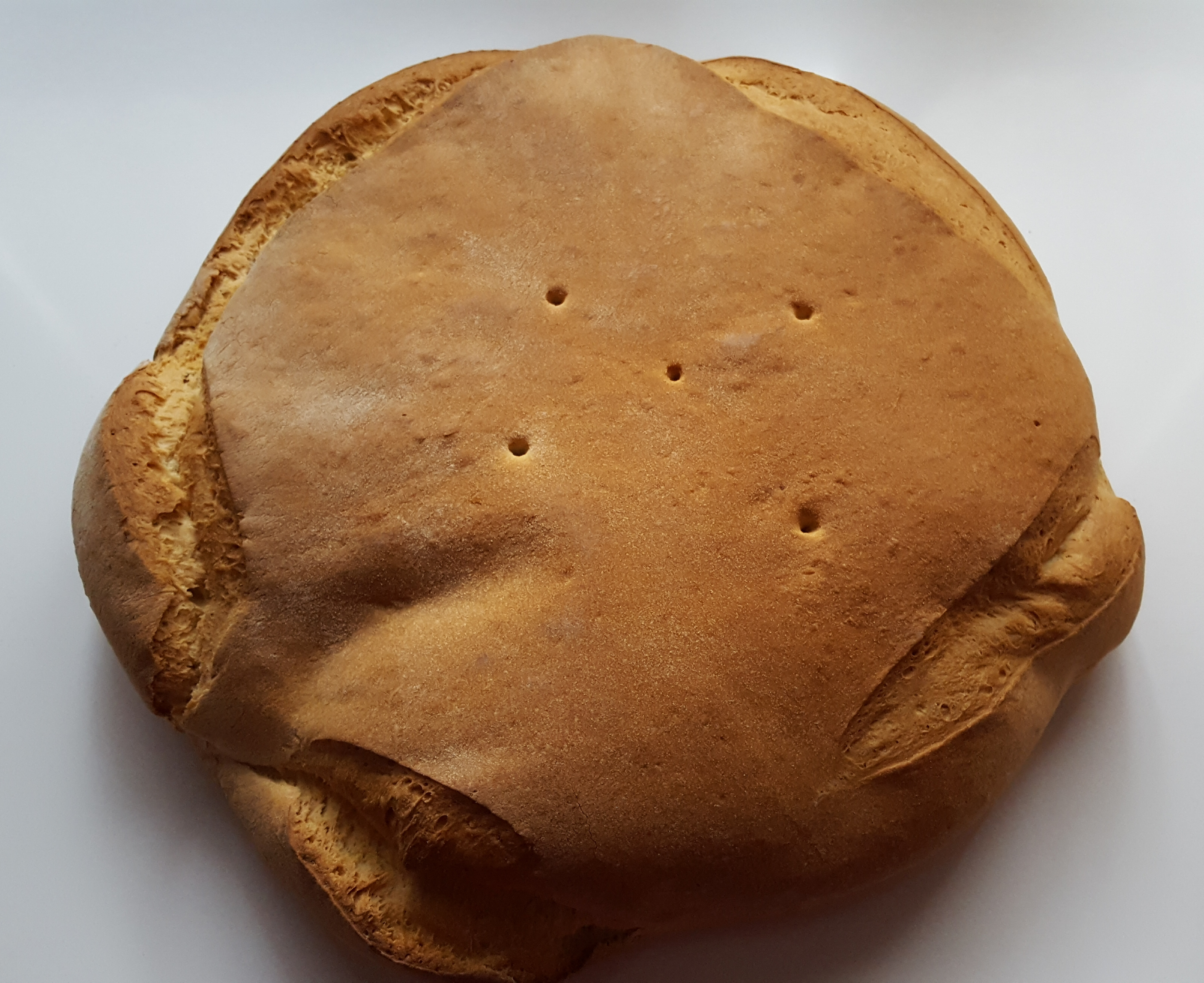 Hogaza, simply called bread in Muñogalindo, province of Ávila, Spain